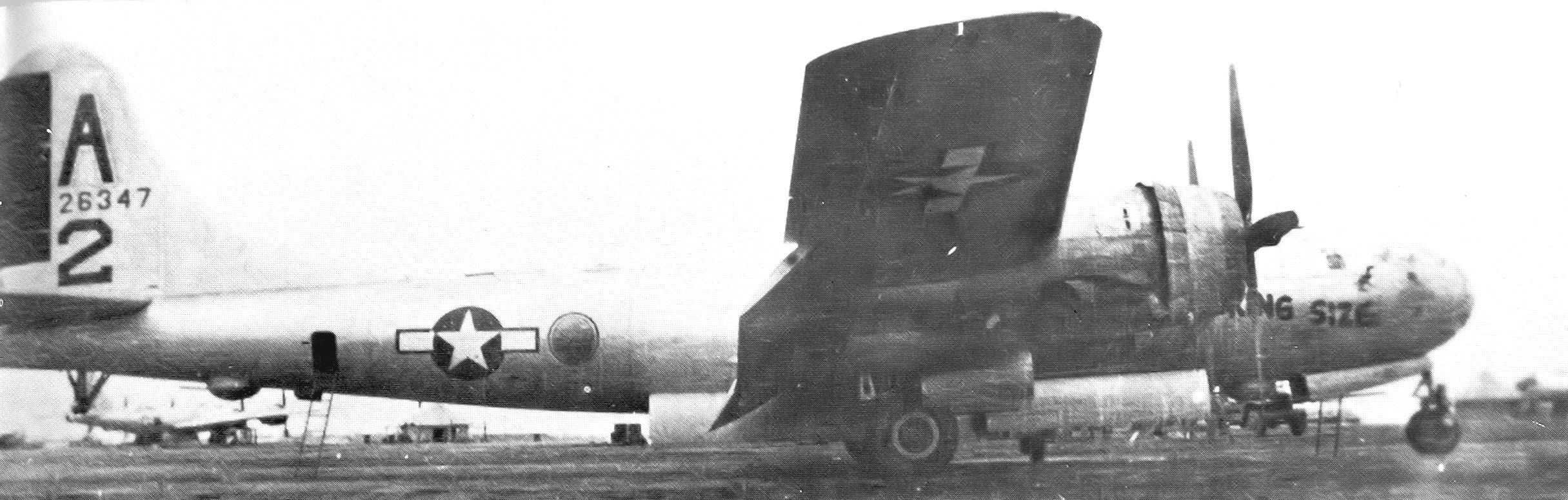 462d Bombardment Group Boeing B-29-10-BW Superfortress 42-6347 "King Size". Shown in June 1944 at Piardoba Airfield, India. One of the forty-seven B-29s that completed the first combat mission over Japan, 15 June 1944. Aircraft survived the war, returned to the United States and was placed in storage. Reclamation completed Pyote Dec 21, 1949